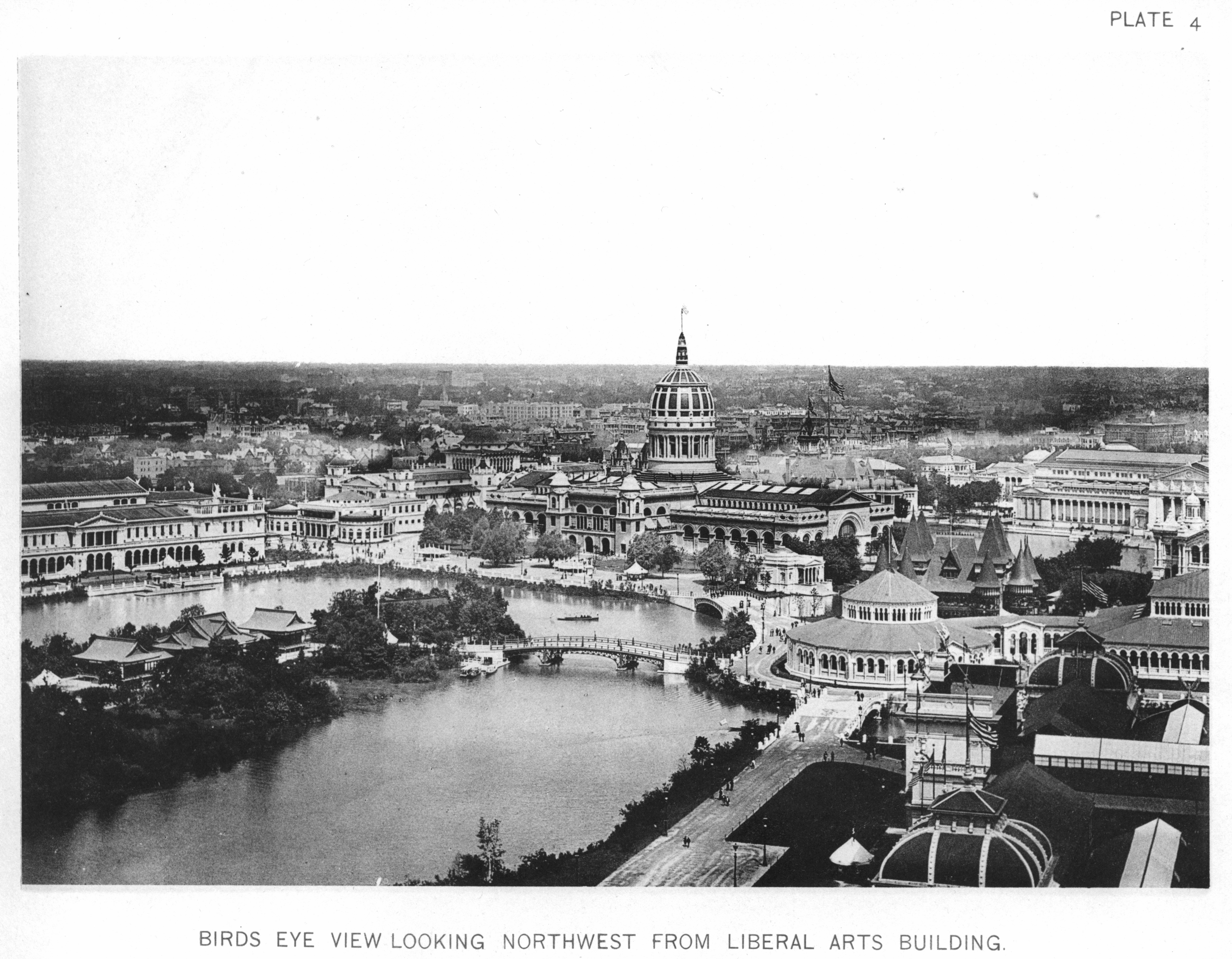 Official Views Of The World's Columbian Exposition: Birds Eye View Looking Northwest From Liberal Arts Building